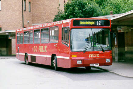 Felix Bus Services Volvo B10B single deck bus with Alexander Strider bodywork photographed in Derby bus station